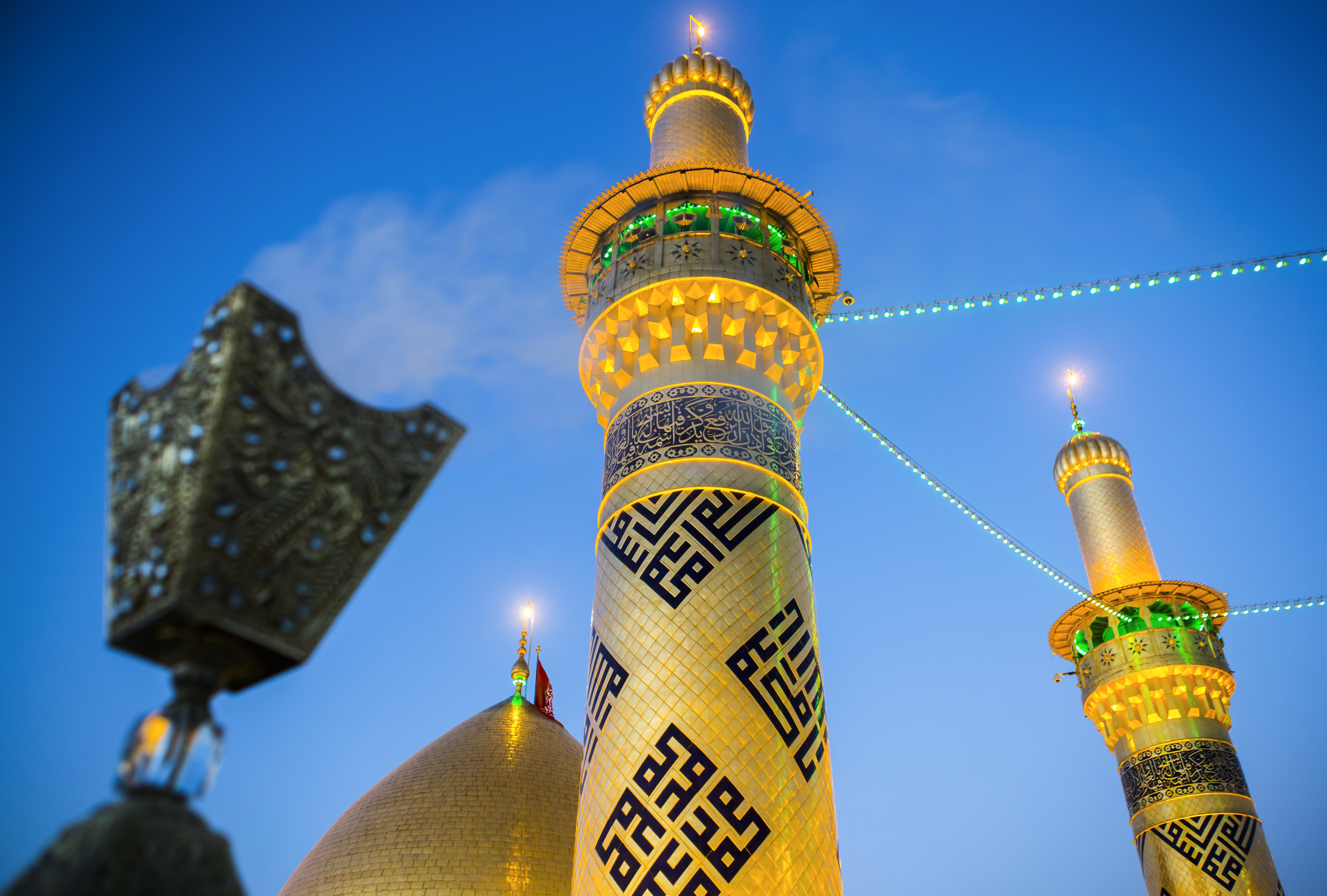 The holy Abbasid threshold